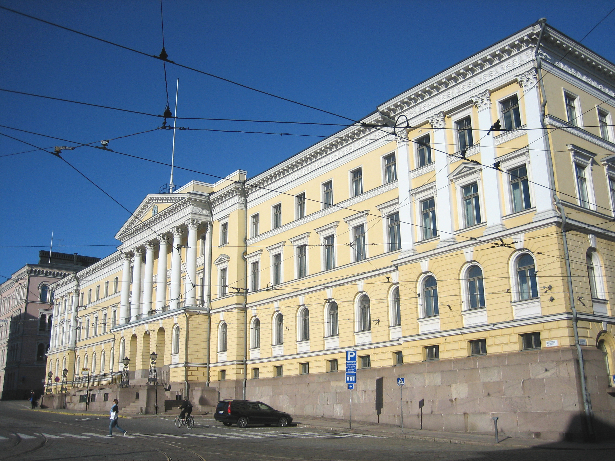 The Government Palace (Valtioneuvoston linna) at the Senate Square in Helsinki, Finland. Built in 1822. Architect Carl Ludvig Engel.